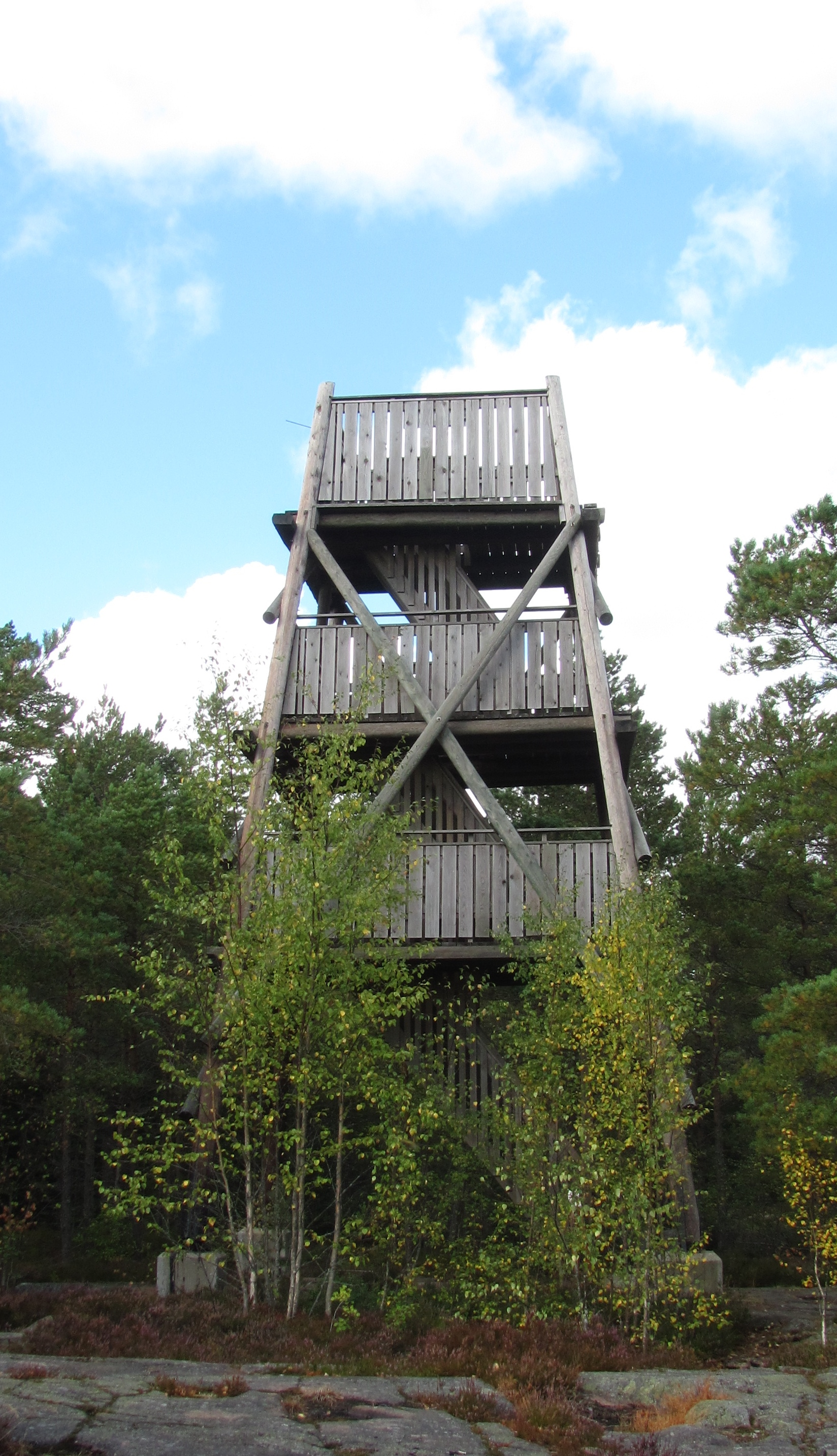 Tower on Mount Ingbyberg, Jomala, Fasta Aland, Finland.